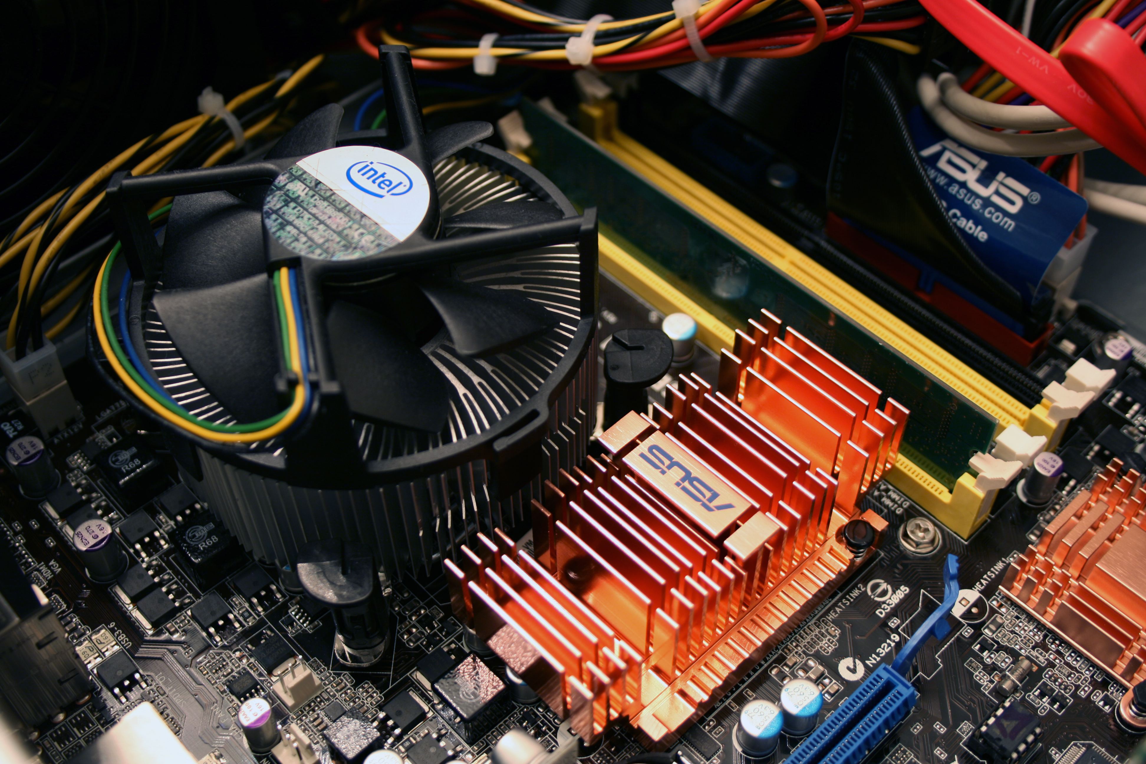 An Intel CPU cooler DTC-AAL03 and an Asus motherboard.